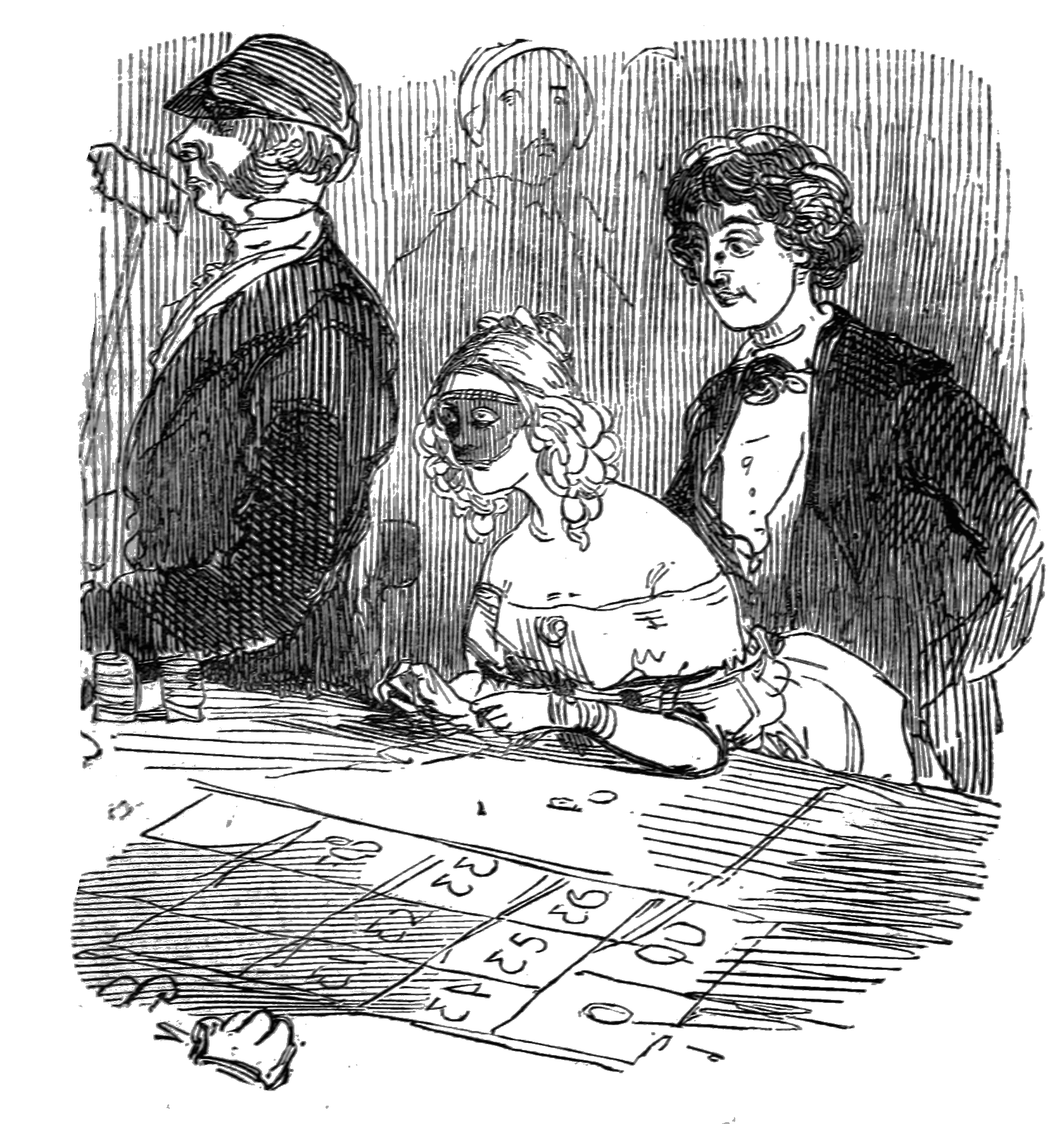 Becky Sharp at roulette on the Continent, supported by a gentleman, an untitled image from the novel. The number indicates the Djvu page number of the Wikisource transclusion.